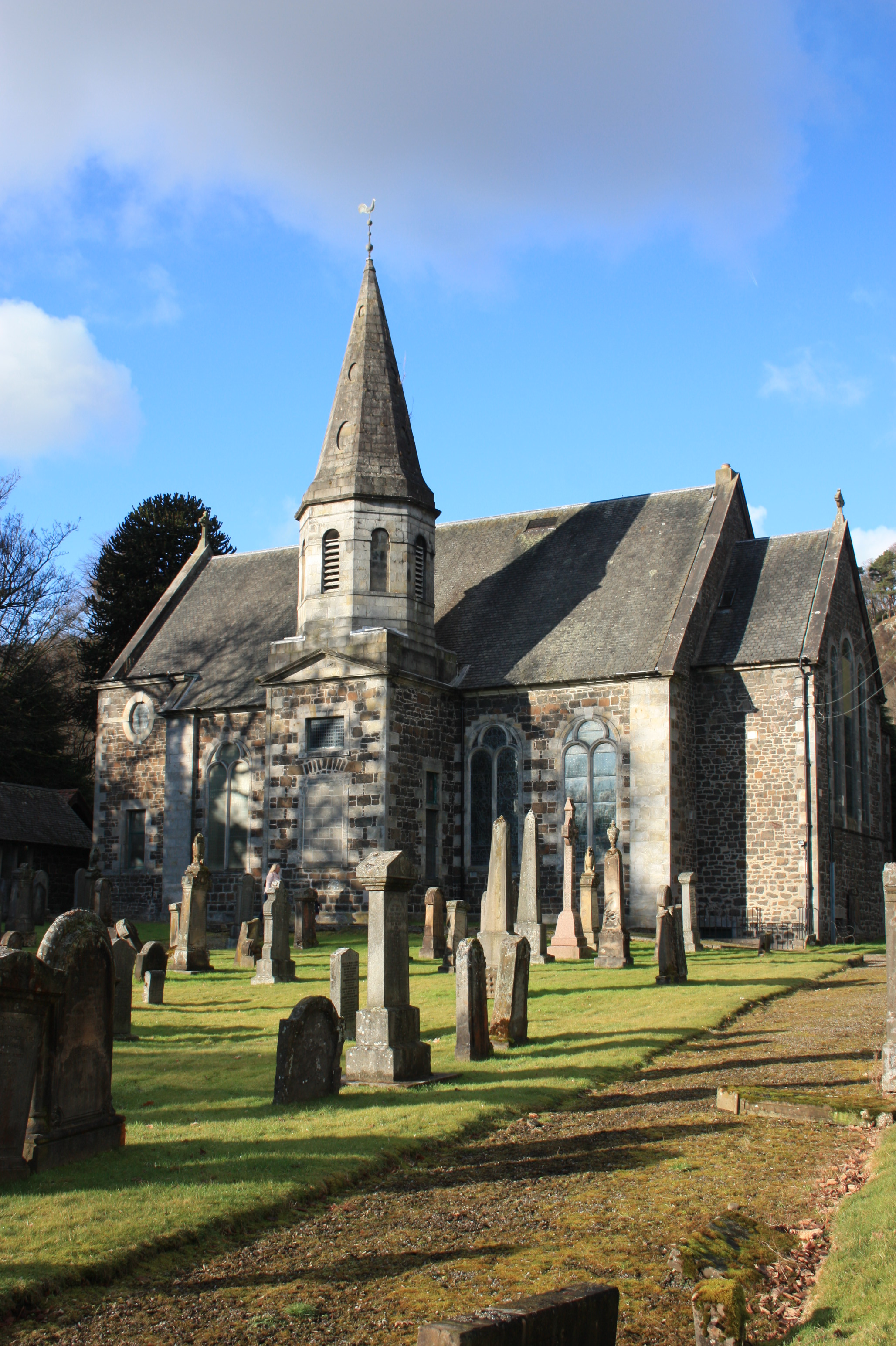 Logie Kirk, near Stirling, Scotland